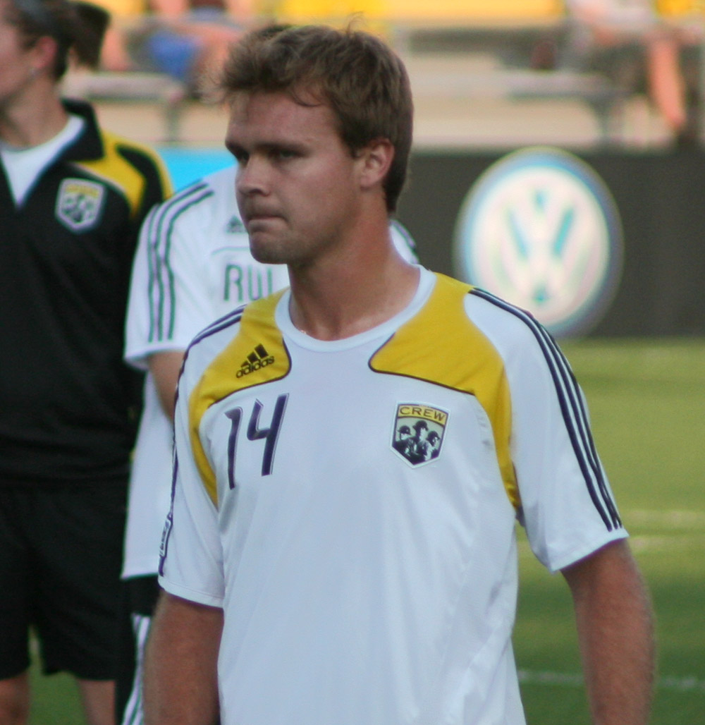 I shot this photo during warmups on 7/5/08 at Columbus Crew Stadium, before the Crew played the Fire.